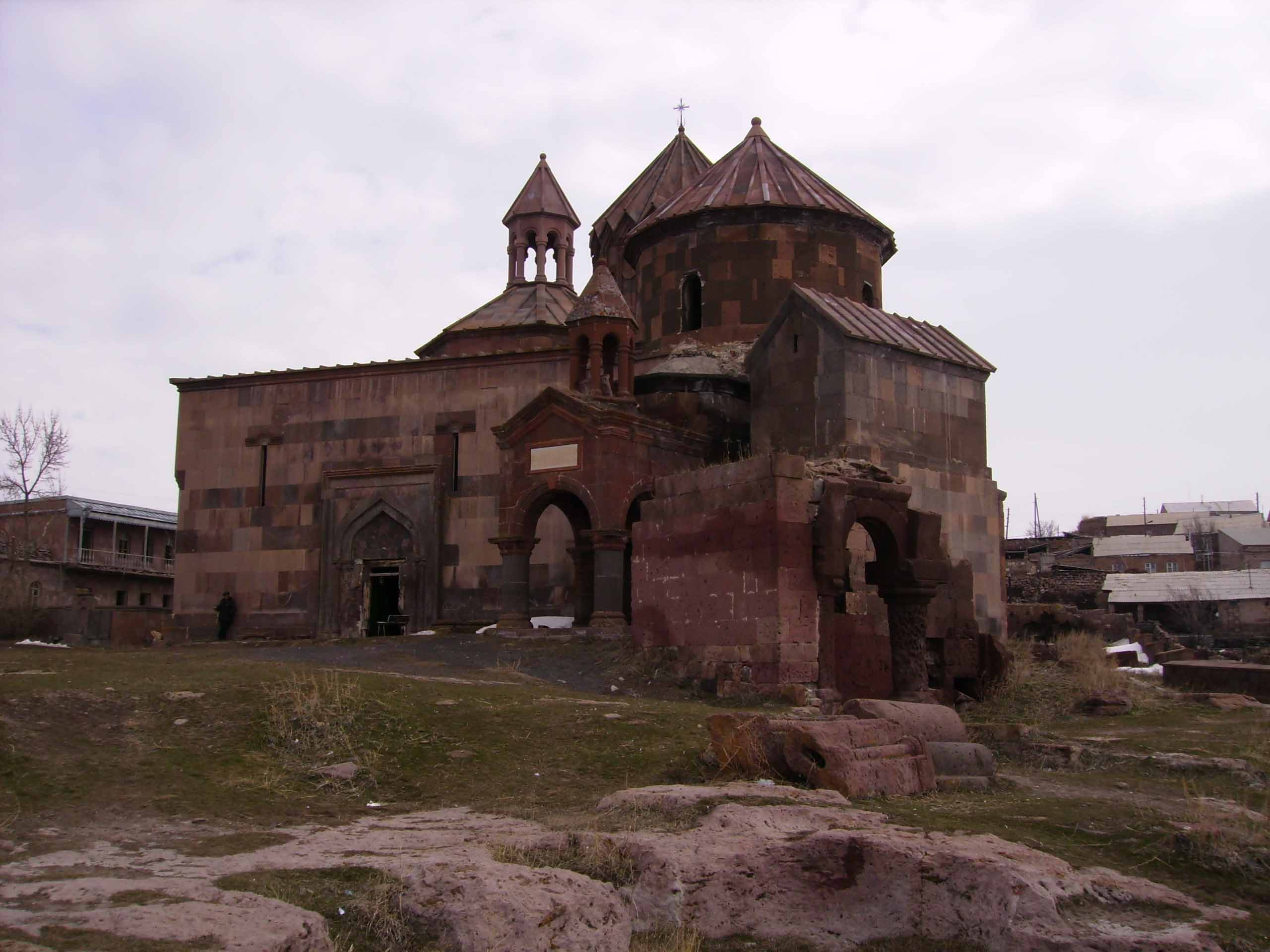 Monastere d'Haritch